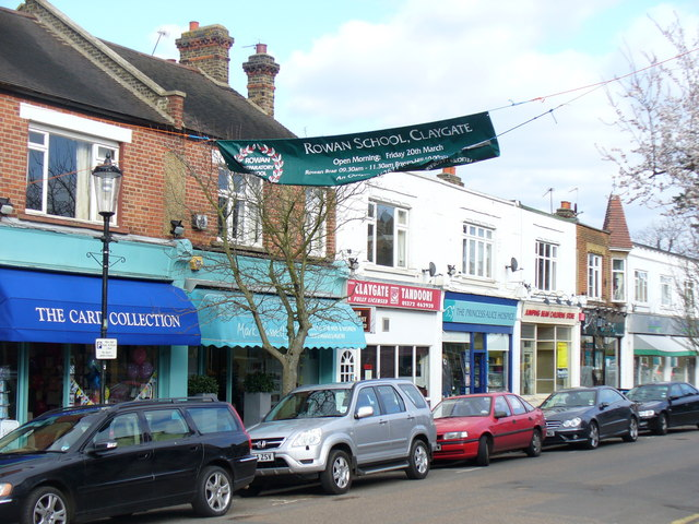 Claygate, The Parade The shopping street at the town centre leads to the railway station.